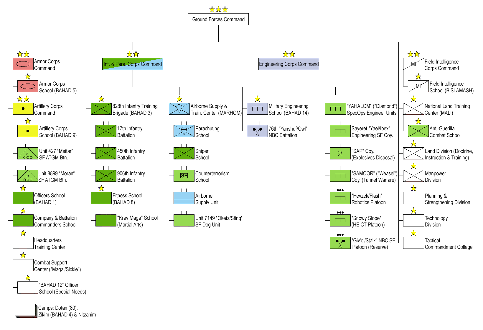 Structure of the Israel Defense Forces Ground Forces Command (MAZI).